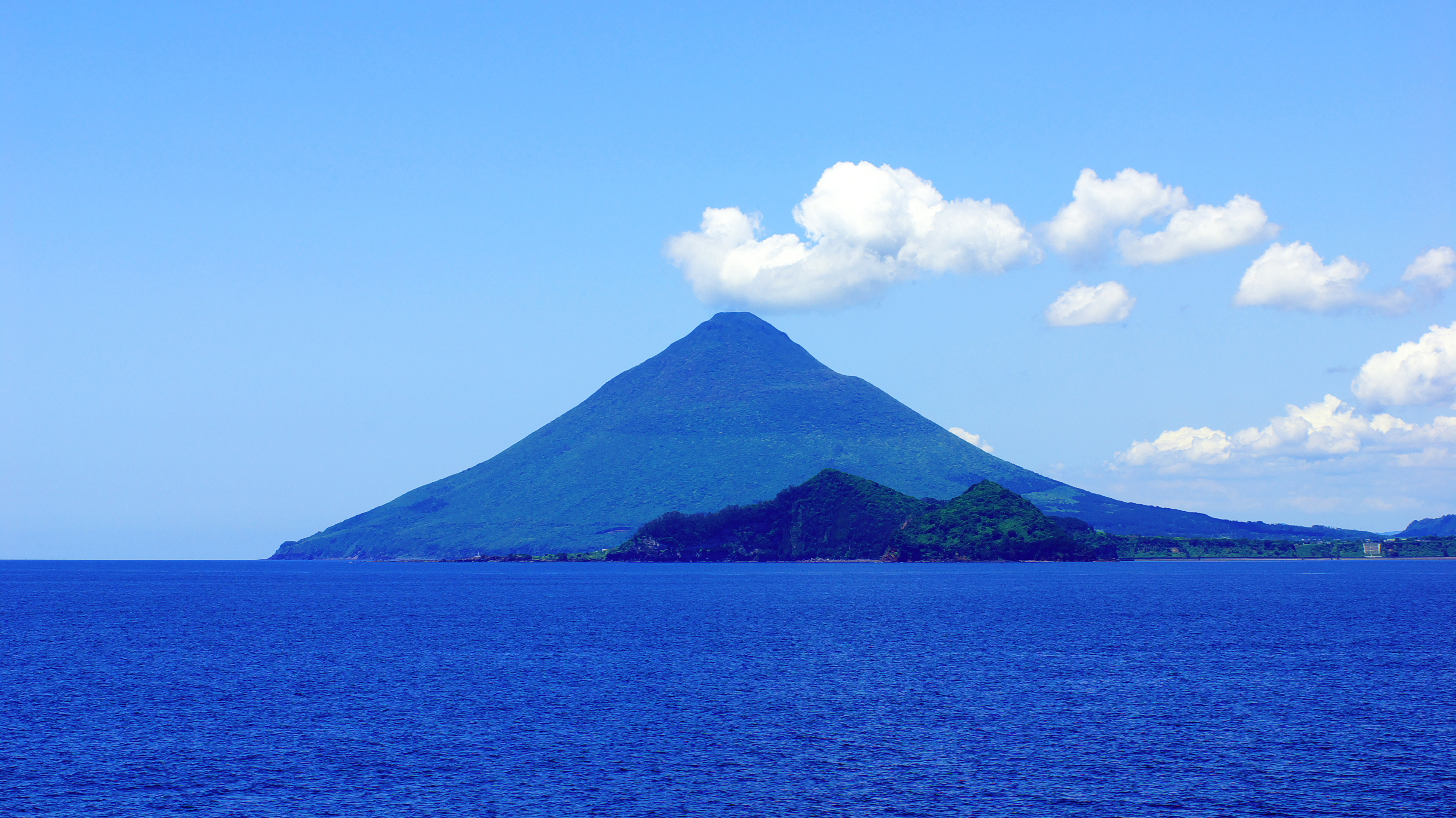 Kaimondake seen from the sea. Nagasakibana in front. Shooting from ferry boat "Mishima".